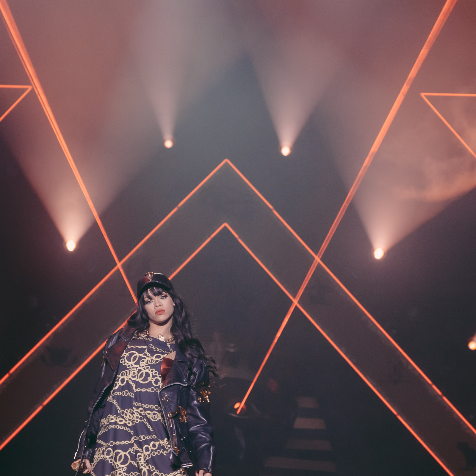 Rihanna performing at Kollenfest 2012